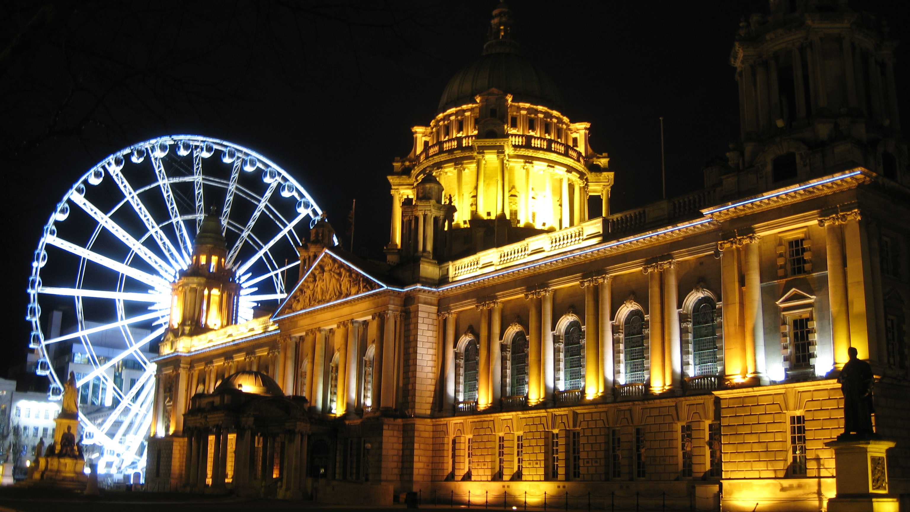 City Hall and The Belfast Wheel at night.